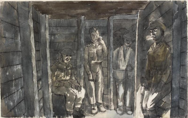 In an Air Raid Shelter, Dunkirk- Bombs are dropping image: The interior of an air-raid shelter with four soldiers, one with his arm in a sling